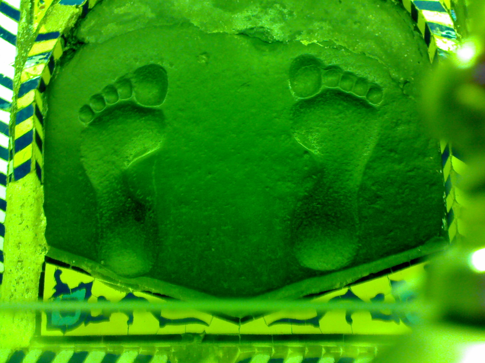 Imam Reza's Ghadamgah (trace) in Ghadamgah, Khorasan, Iran